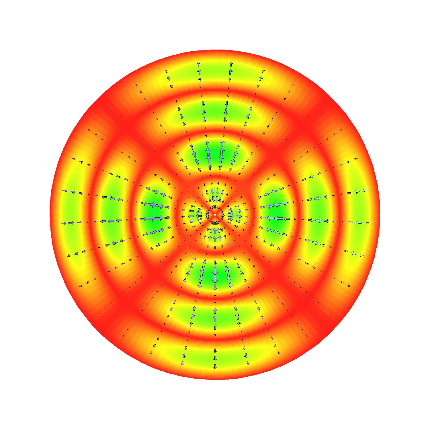 Plot of E and H fields on the TEnl mode defined by n and l.